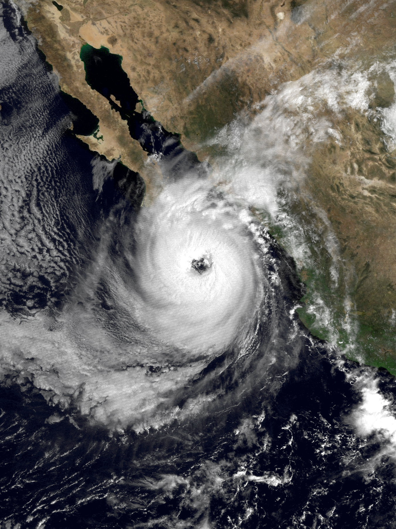 Hurricane Paul on September 29, 1982